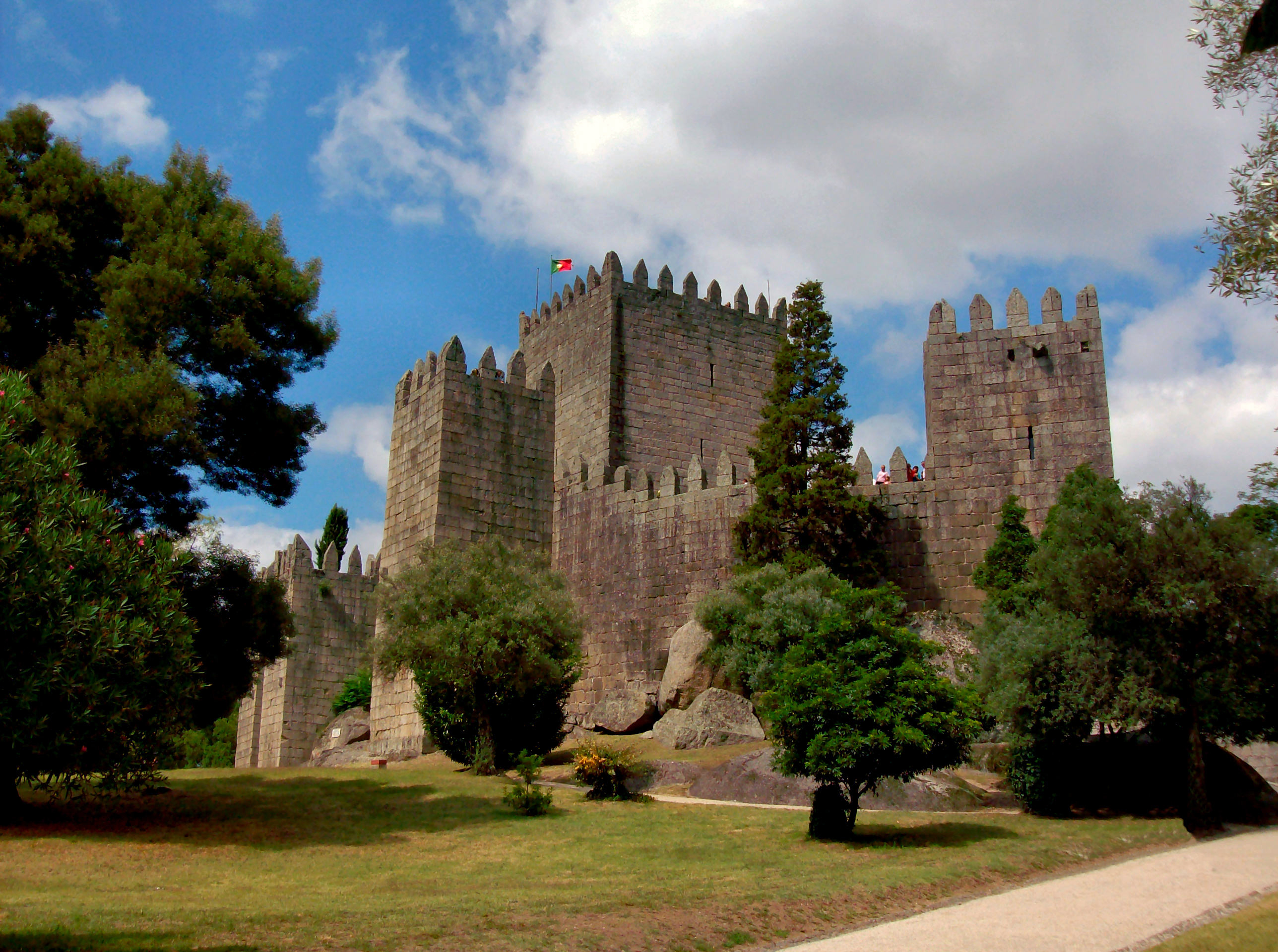 Guimaraes Castle